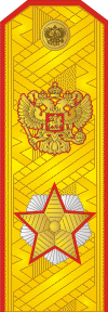 Rank insignia of the Russian federation’s armed forces, here " Marshal of the Russian Federation " (OF10) – shoulder strap dress uniform (1994 – 2010).